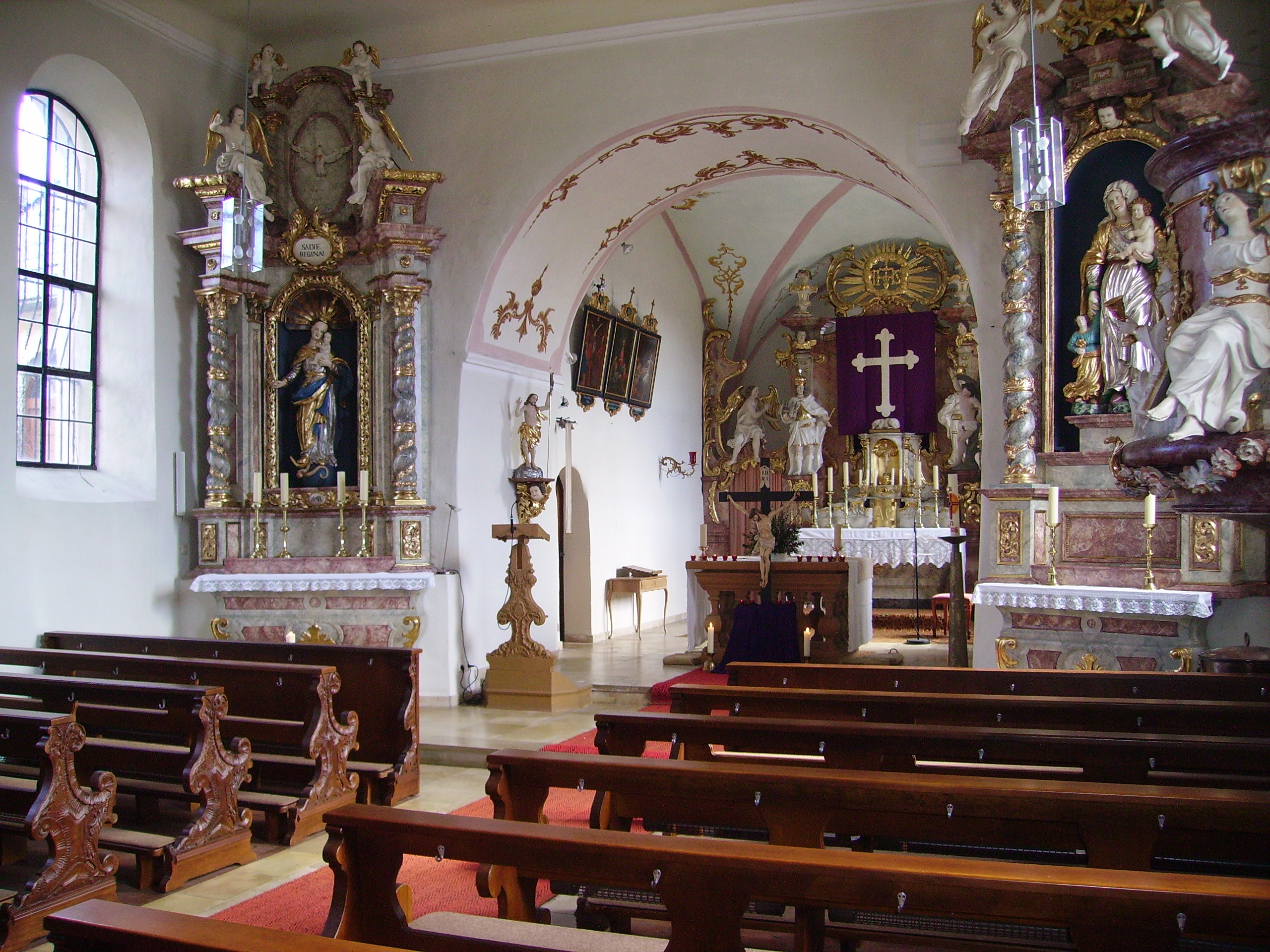 church in Hohenpölz, Germany